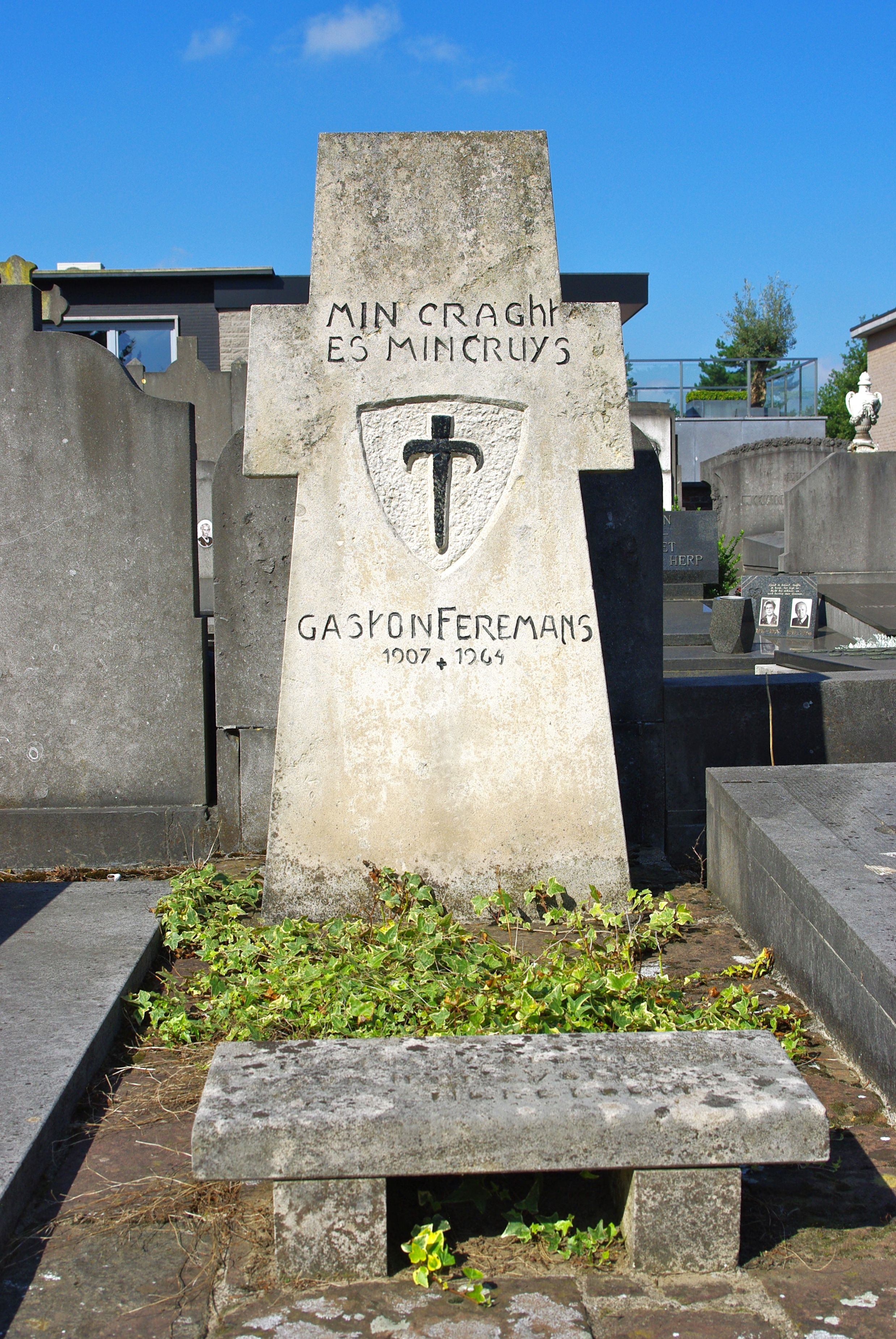 Tomb of Gaston Feremans in the Municipal Cemetery of Mechelen